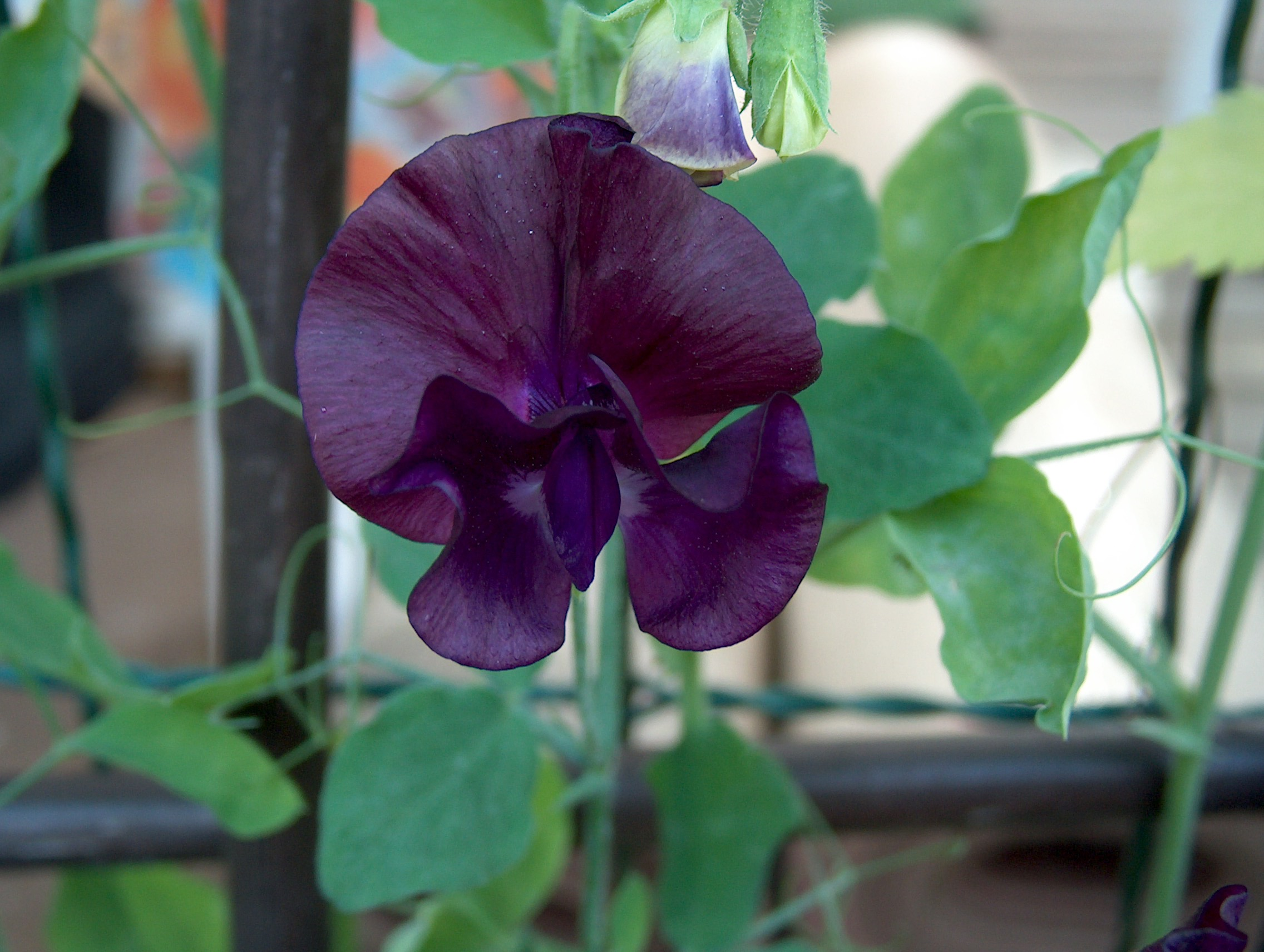 Lathyrus odoratus, Sweet Pea - Flower - Kerava, Finland